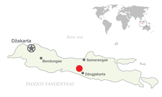 Location of the vulcanoe Merapi in Java, Indonesia. (Lithuanian version).